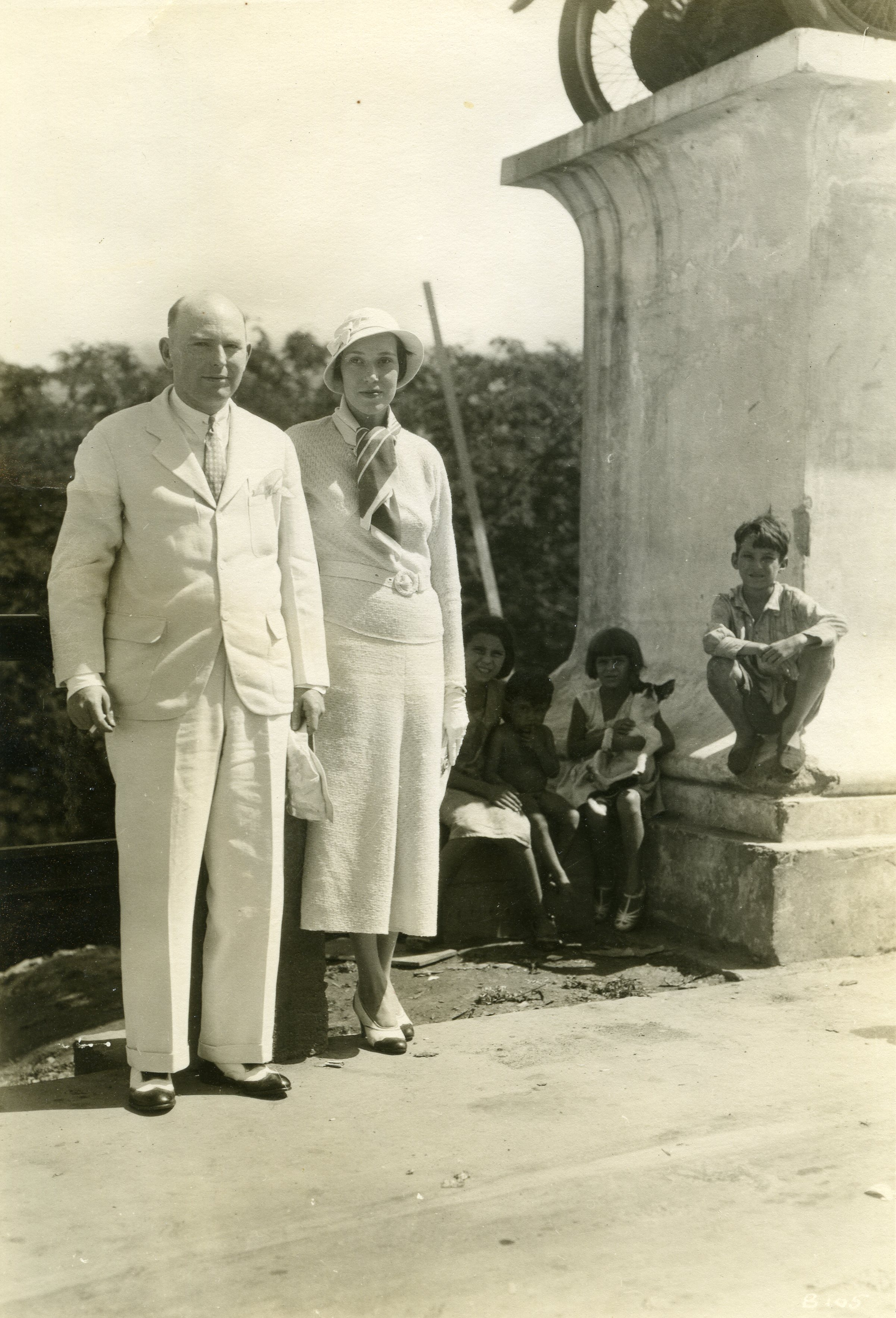 Photo of Mary Reynolds Babcock.